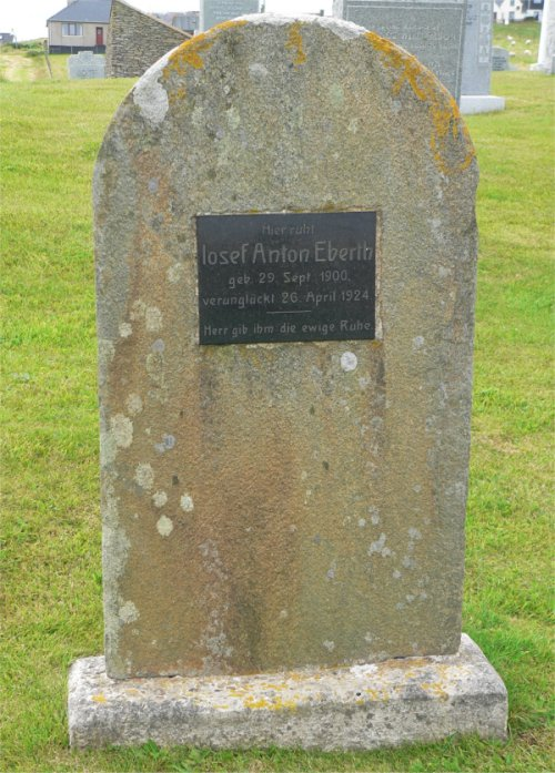 The grave of one of the sailors of the Bohus, shipwrecked at Yell. See also The White Wife.